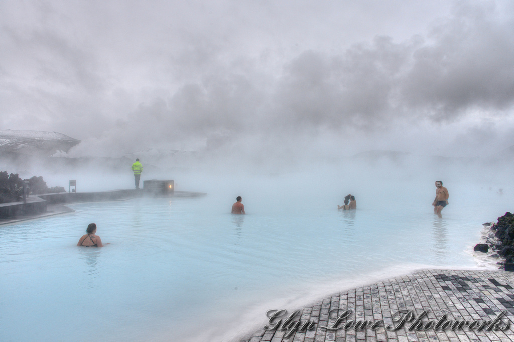 Blue Lagoon in Reykjavik, Iceland.